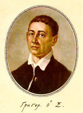 Gregory Savvich Skovoroda